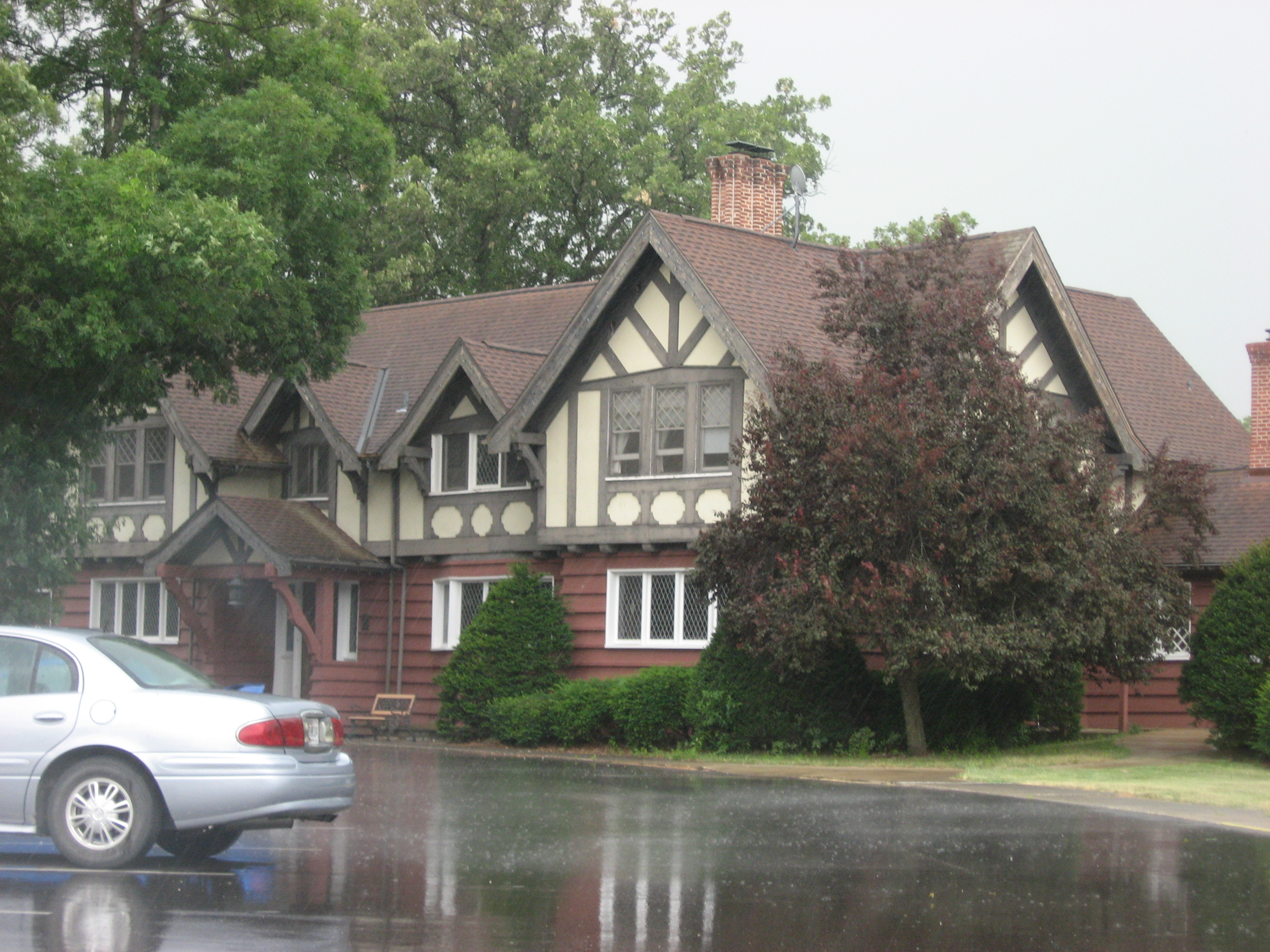 Front of the George Ade House, located along State Road 16 east of Brook in Iroquois Township, Newton County, Indiana, United States. Built in 1904 as the home of George Ade, it is listed on the National Register of Historic Places.